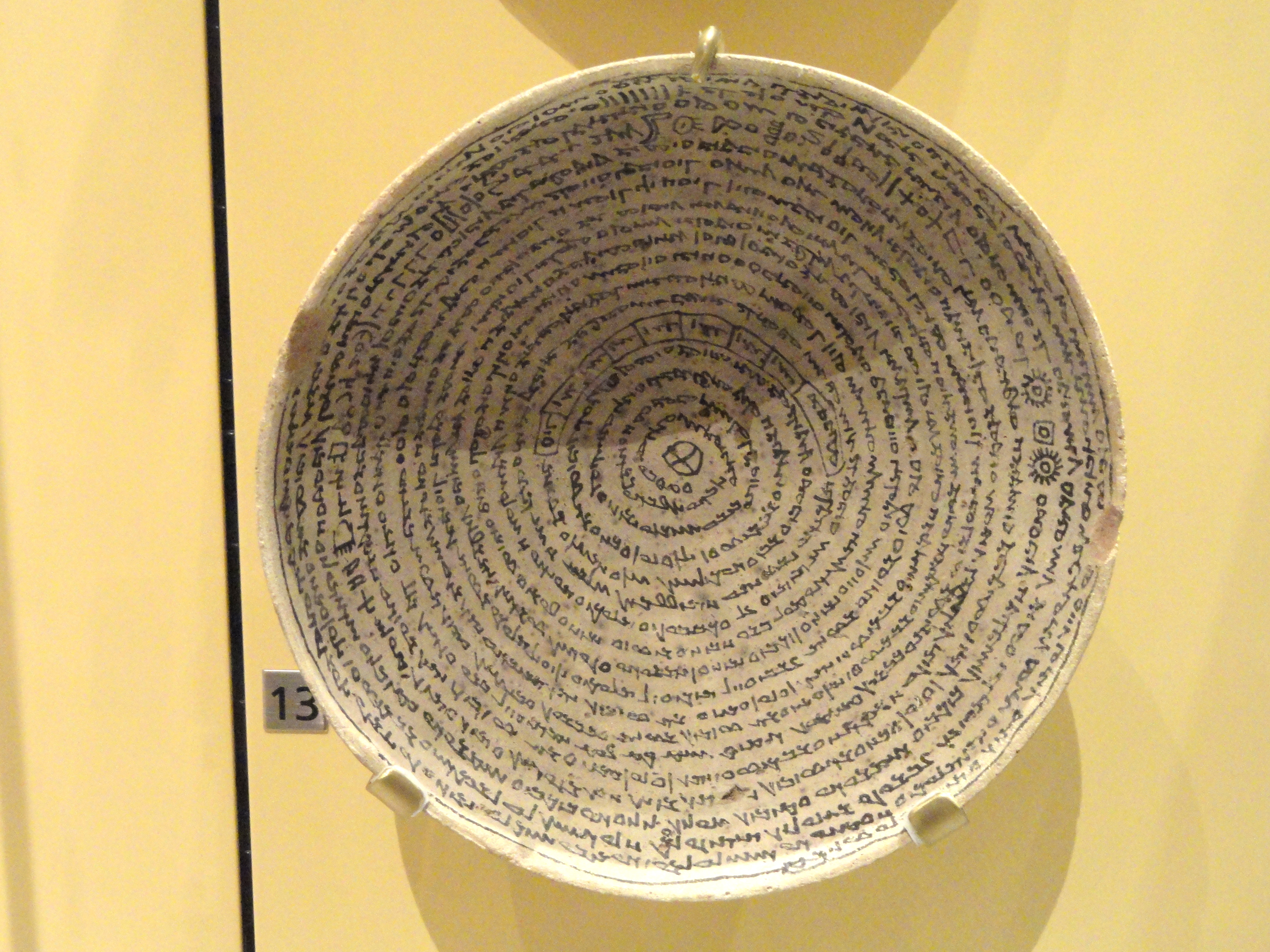 Exhibit in the Royal Ontario Museum, Toronto, Ontario, Canada. This exhibit is old enough so that it is in the public domain, and photography was permitted in the museum. I took this photograph and release it into the public domain.